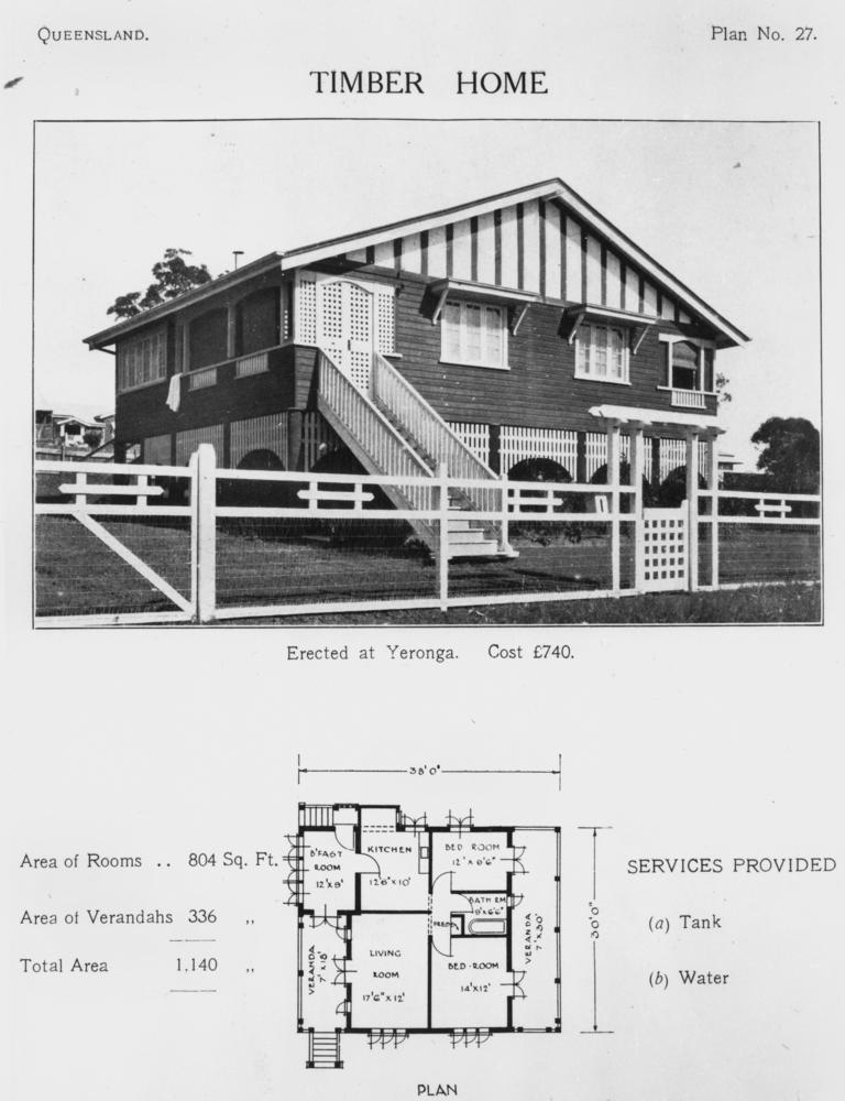 Timber home at Yeronga, Brisbane, 1920-1930 The house is viewed from the street over the fence and gate. The verandah and area under the house is screened with latticework and ornamental, wooden slats. A drawing of the floor plan is included. Caption: Erected at Yeronga. Cost £740.